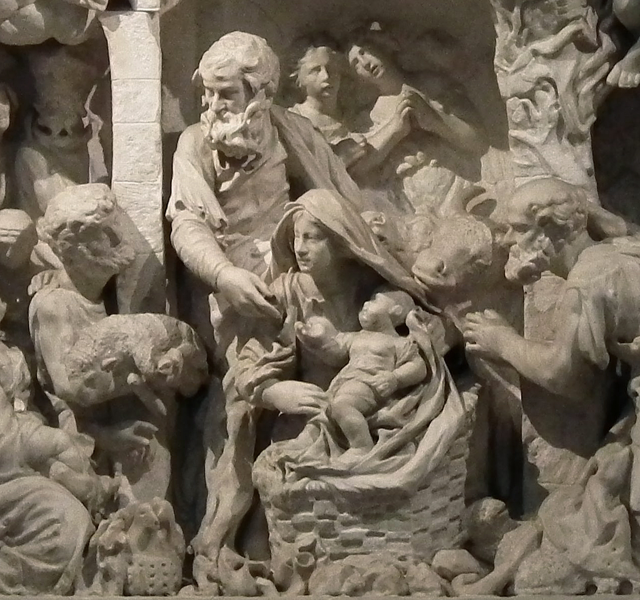 Francesco Grassia also called Franco Siciliano - "Adoration of the Shepherds" (details), marble, 1667, 2,30m x 1,95m, Saint Ildefonso and Tommaso Church in Rome - Italy